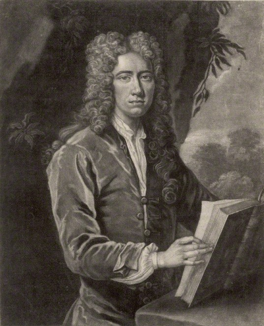 Portrait of John Dart (died 1730), English antiquarian.